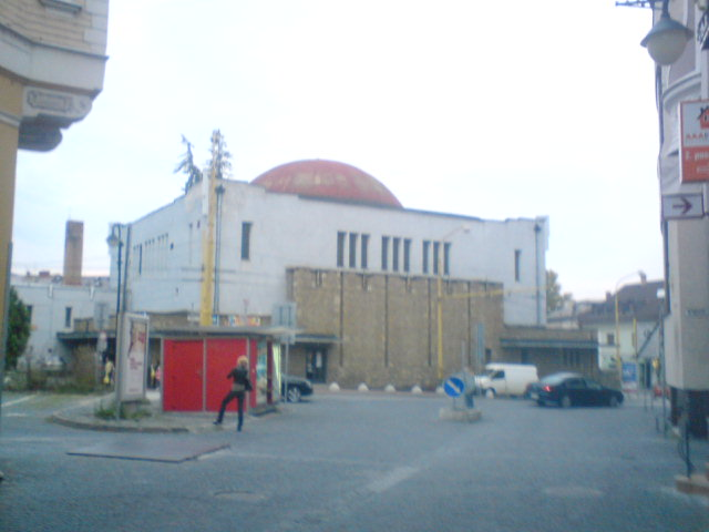 former synagogue in Žilina/Slovakia by Peter Behrens, nowadays Kino